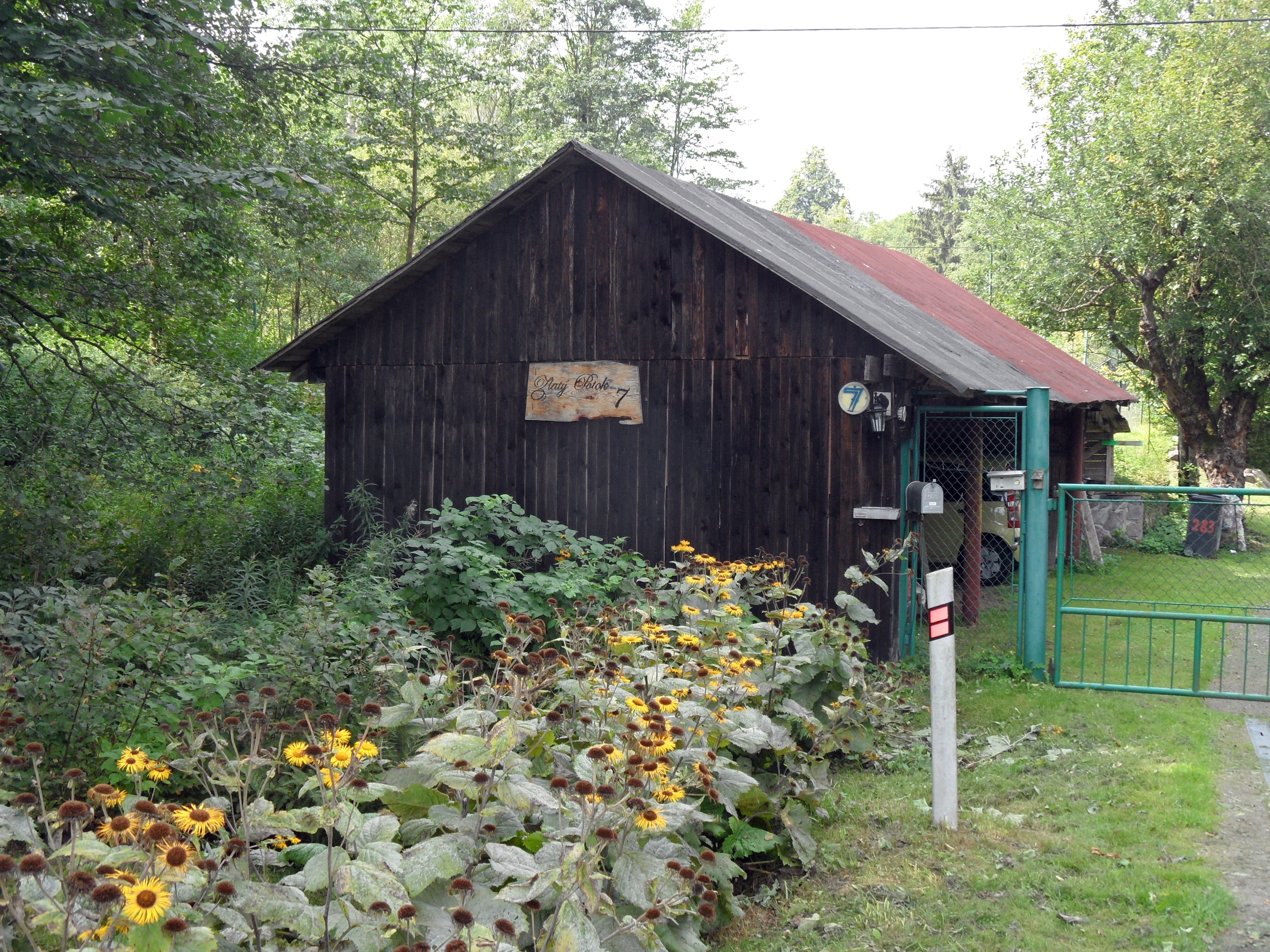 Zlatý Potok: House. Šumperk District, the Czech Republic.